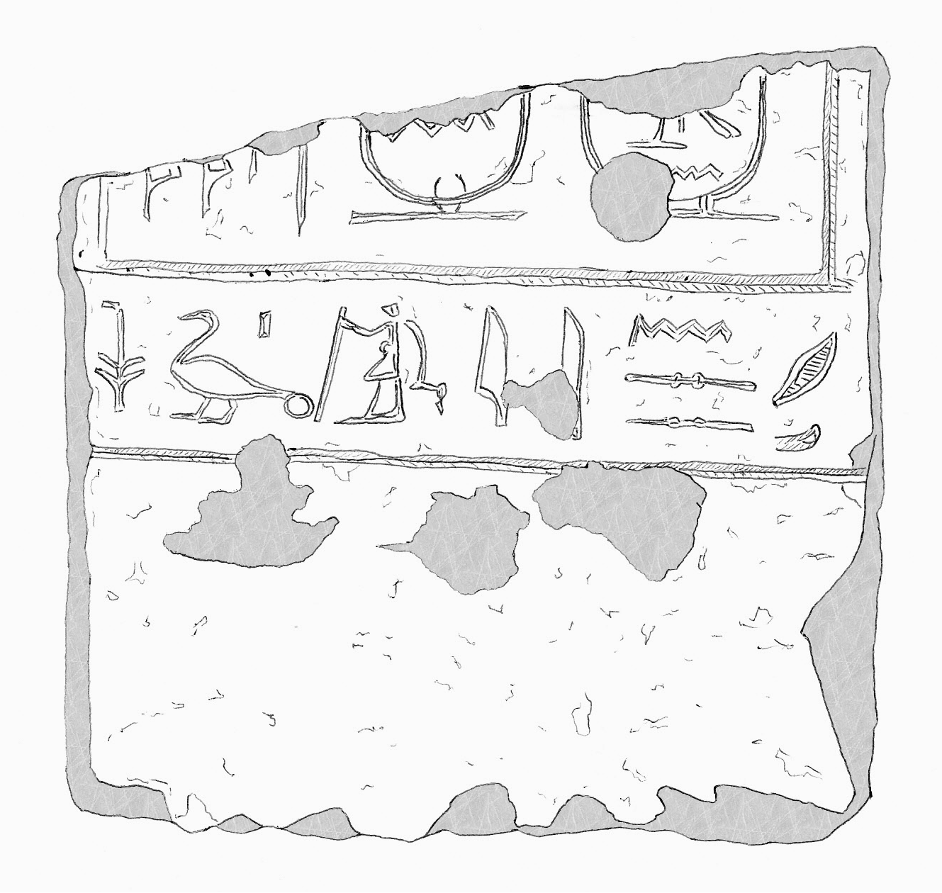 Drawing of an ancient Egyptian stela of prince Yanassi, son of pharaoh Khyan of the 15th Dynasty. Based on a drawing by Manfred Bietak ("Eine Stele des ältesten Königssohnes des Hyksos Chajan", MDAIK 37 (1981), pp. 63–73, fig. 1). From Avaris, now in Cairo Museum (TD-8422 [176]).